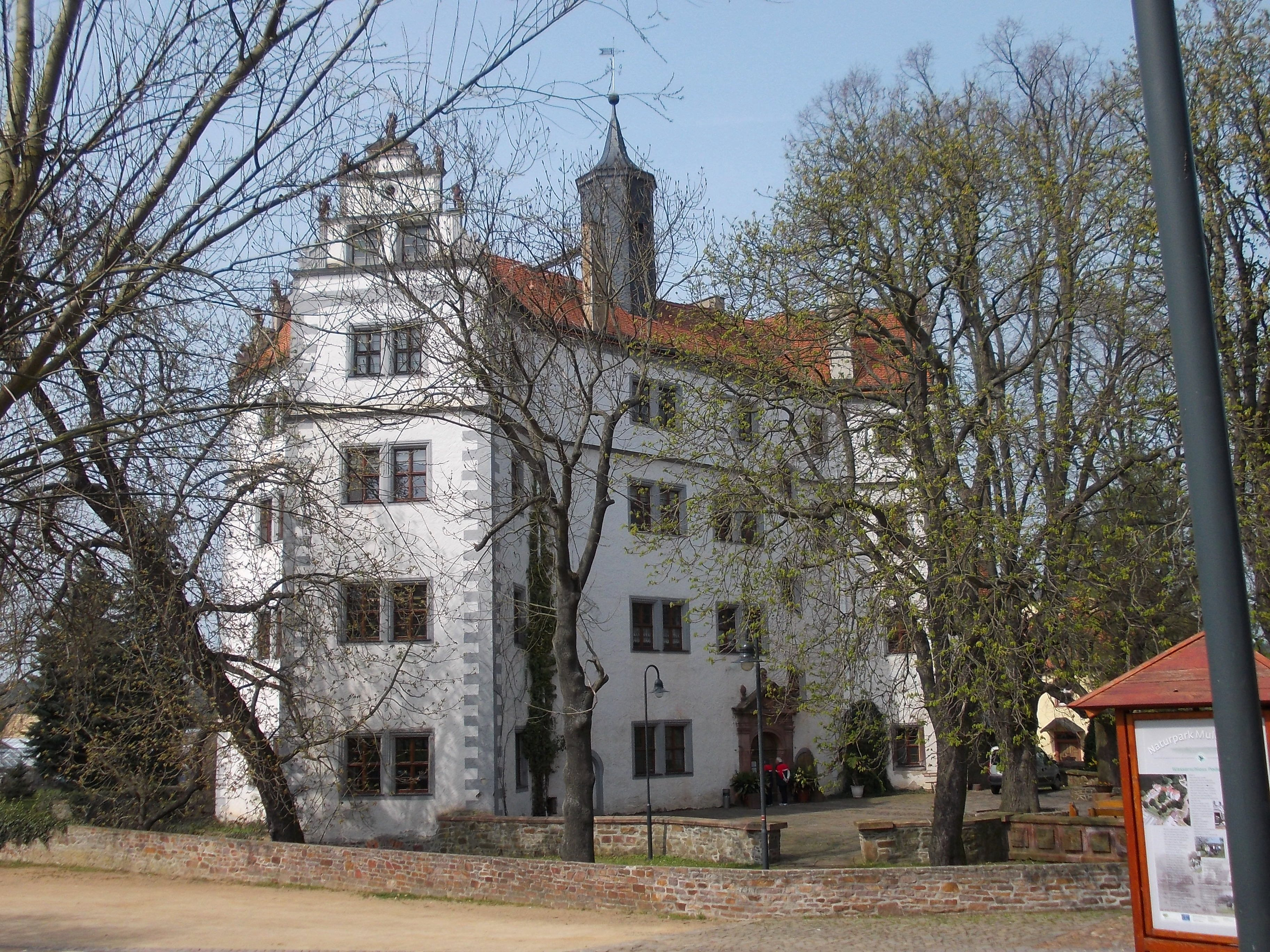 Podelwitz Castle (Colditz, Leipzig district, Saxony)